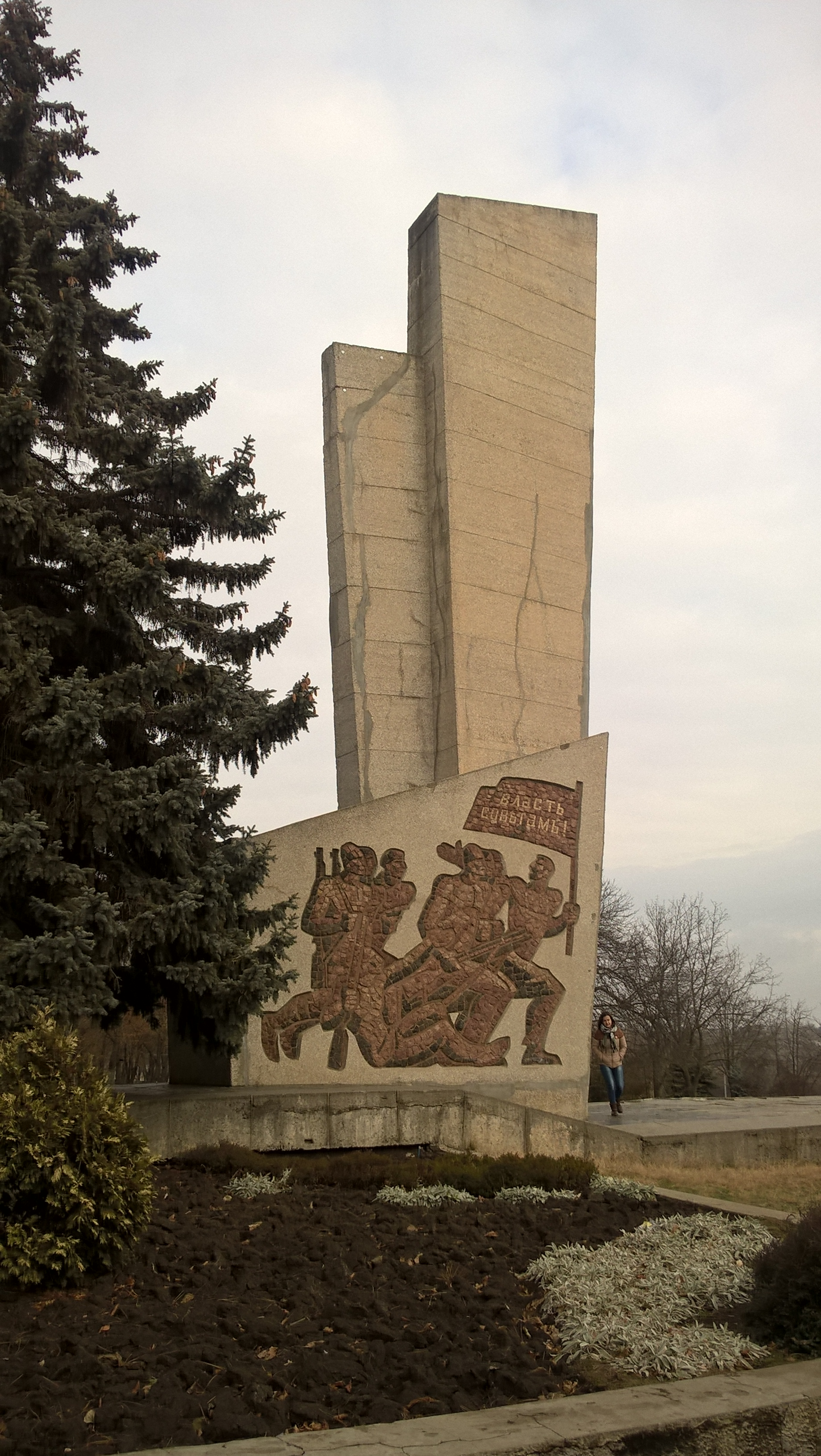 Monument to 1919 Bender Uprising in Bender